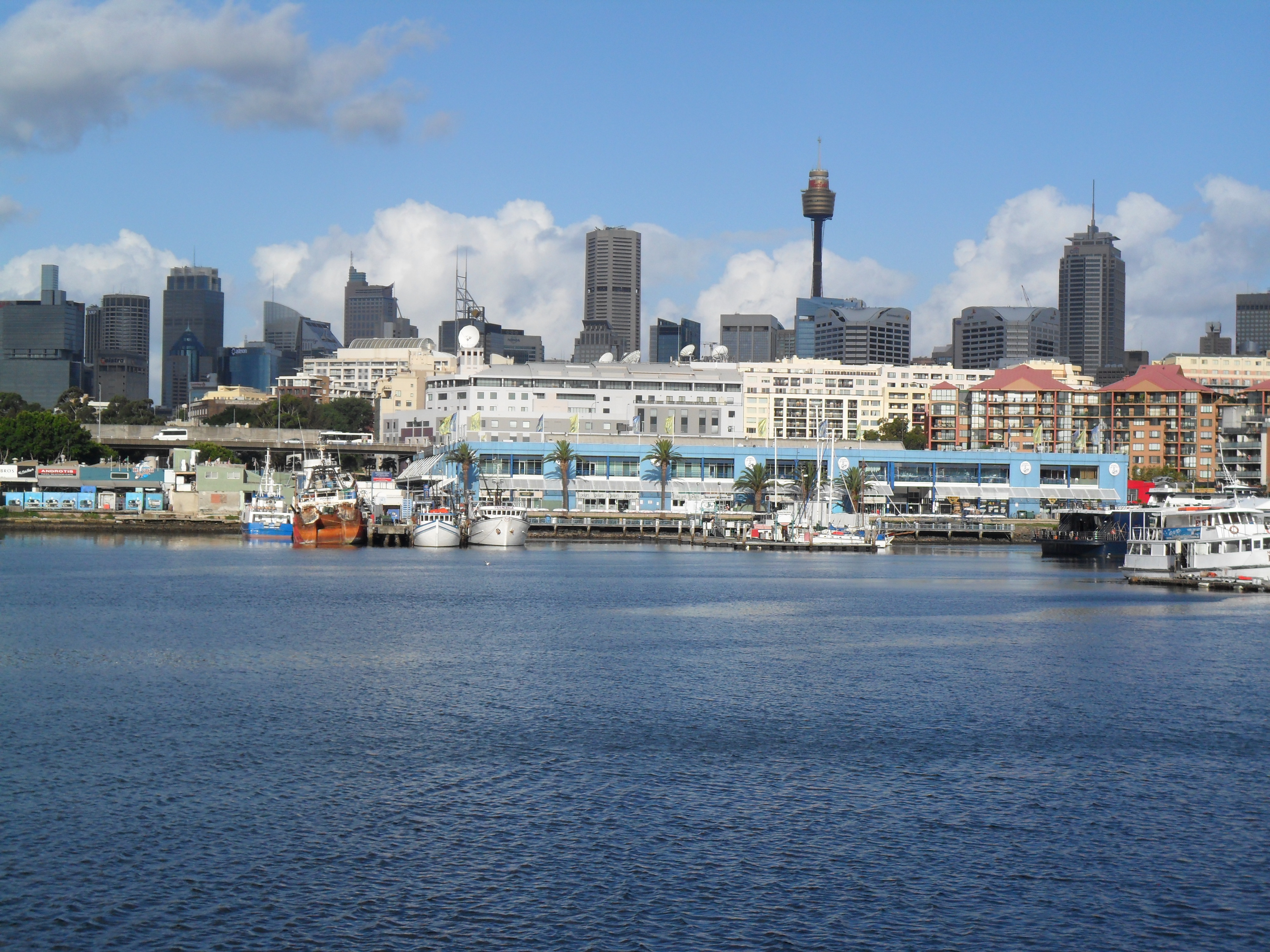 Sydney Fish Market on Blackwattle Bay (with Sydney CBD beyond)